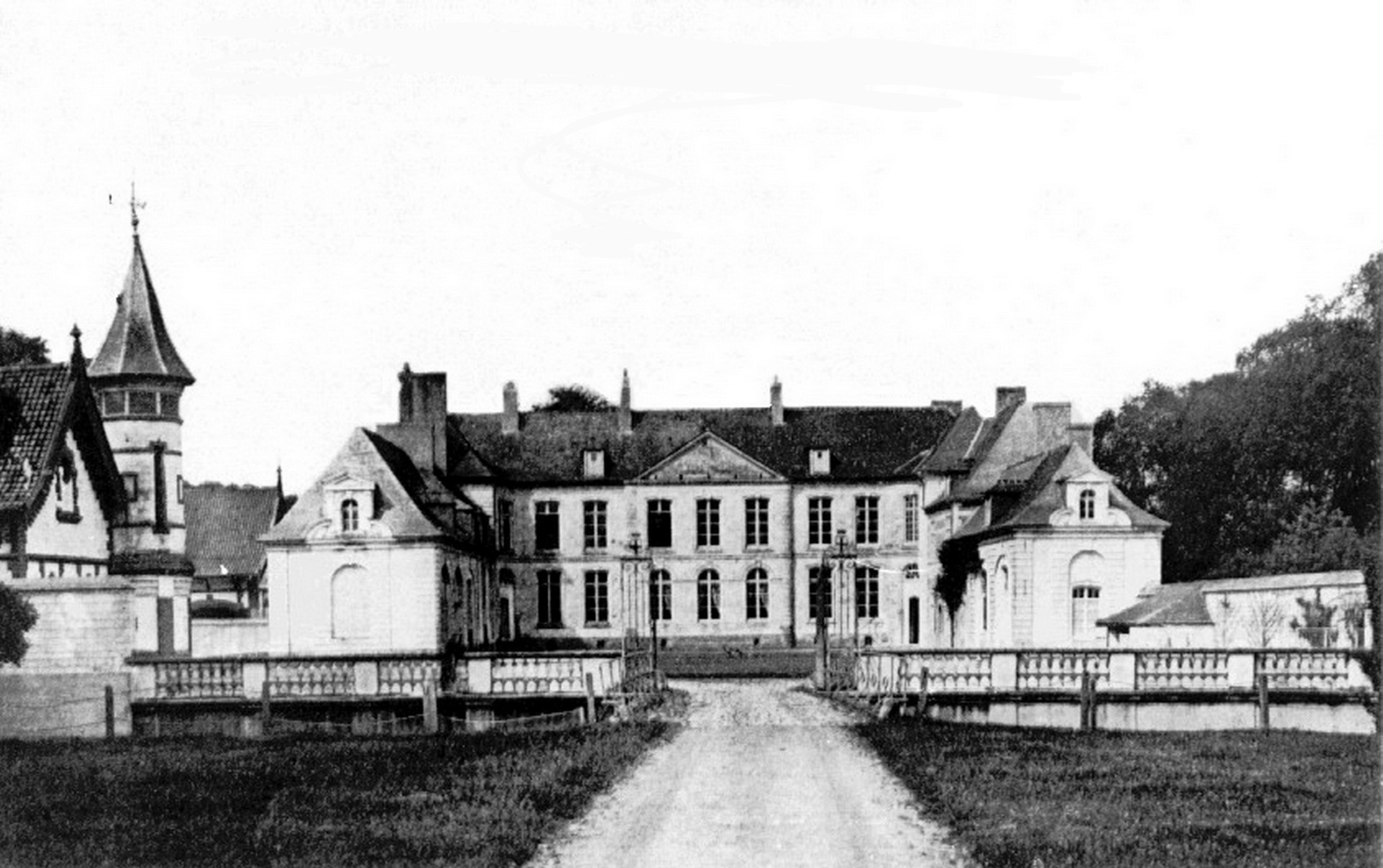 Royon castle in Pas de Calais, private coll.